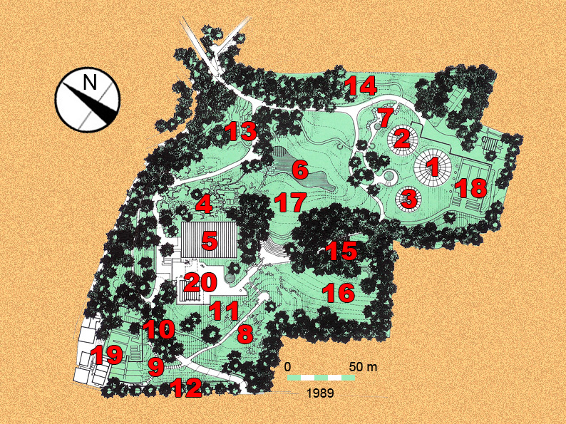 Botanischer Garten Der Universitat Zurich map